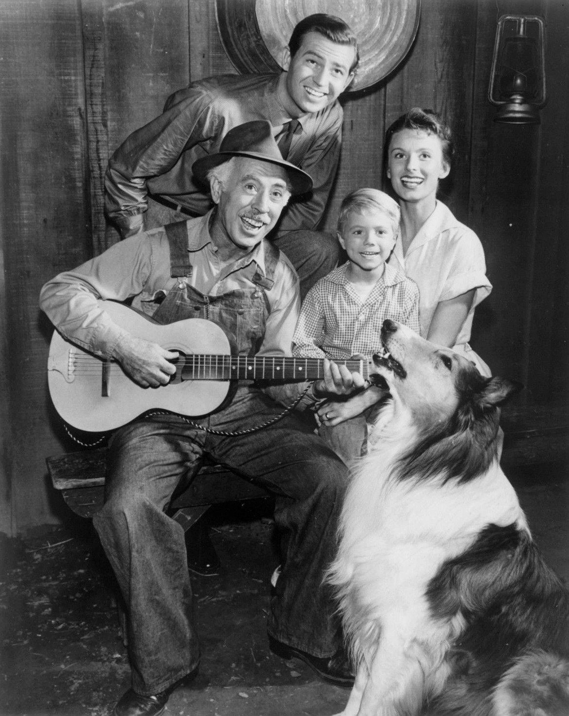 Photo of the Lassie cast in 1957. Clockwise from left: George Chandler, Jon Shepodd, Cloris Leachman and Jon Provost.